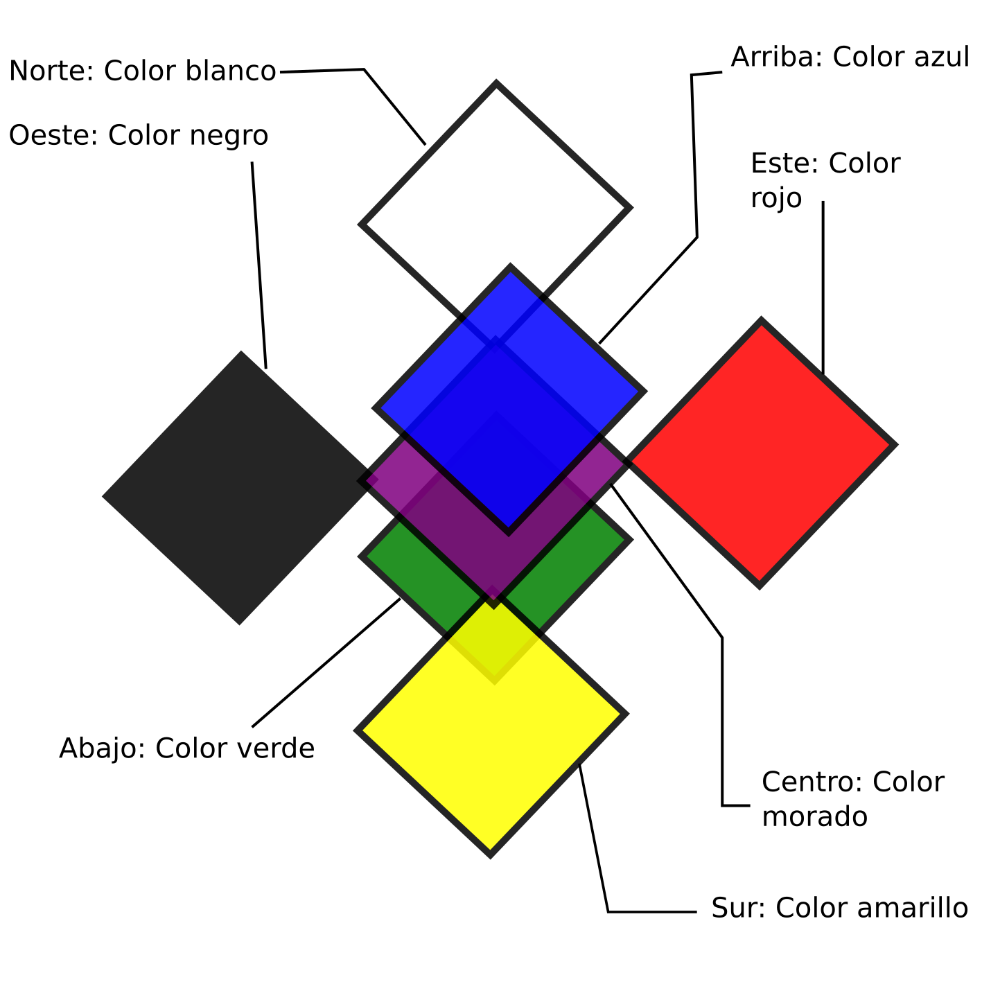 The five directions of the universe and his two assistants according to the Huichol or Wixarika conception.